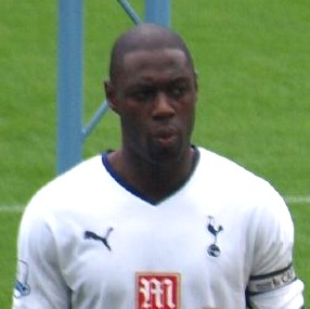 Ledley King, Tottenham Hotspur captain